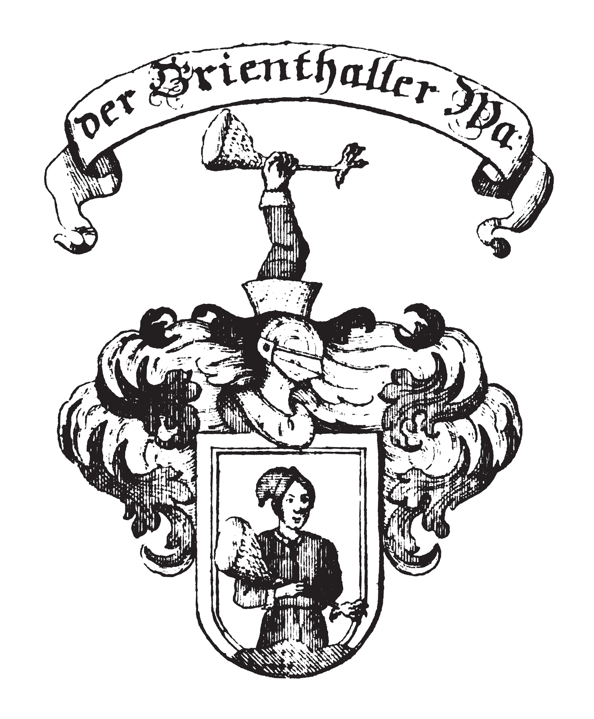 Coat of Arms of Grienthal (Grienthaller)